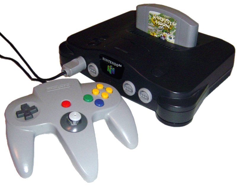 A Nintendo 64 game console and controller (Nintendo 64 is a trademark of Nintendo Company, Limited).